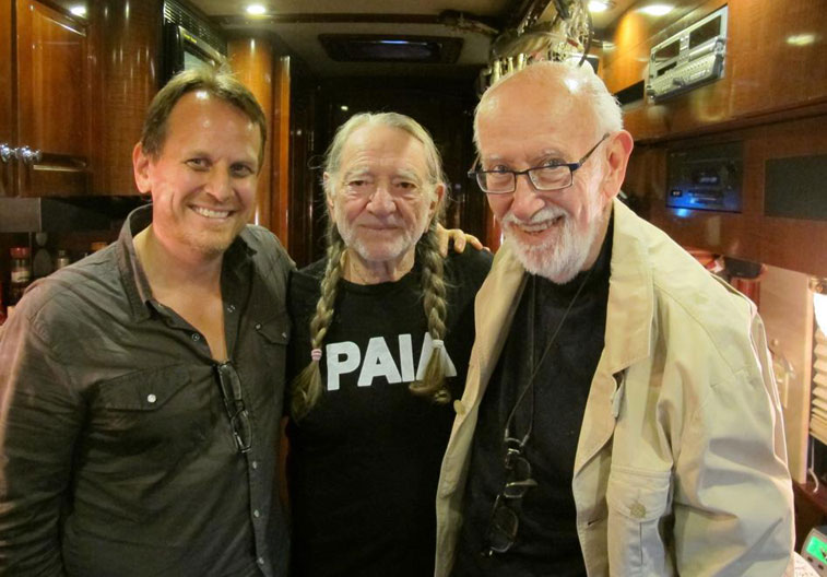 ArtistShare founder Brian Camelio, Willie Nelson and Blue Note Records Chairman Bruce Lundvall